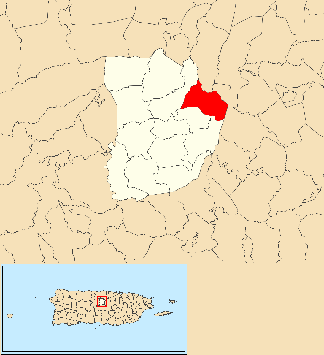 Unibón, Morovis, Puerto Rico locator map